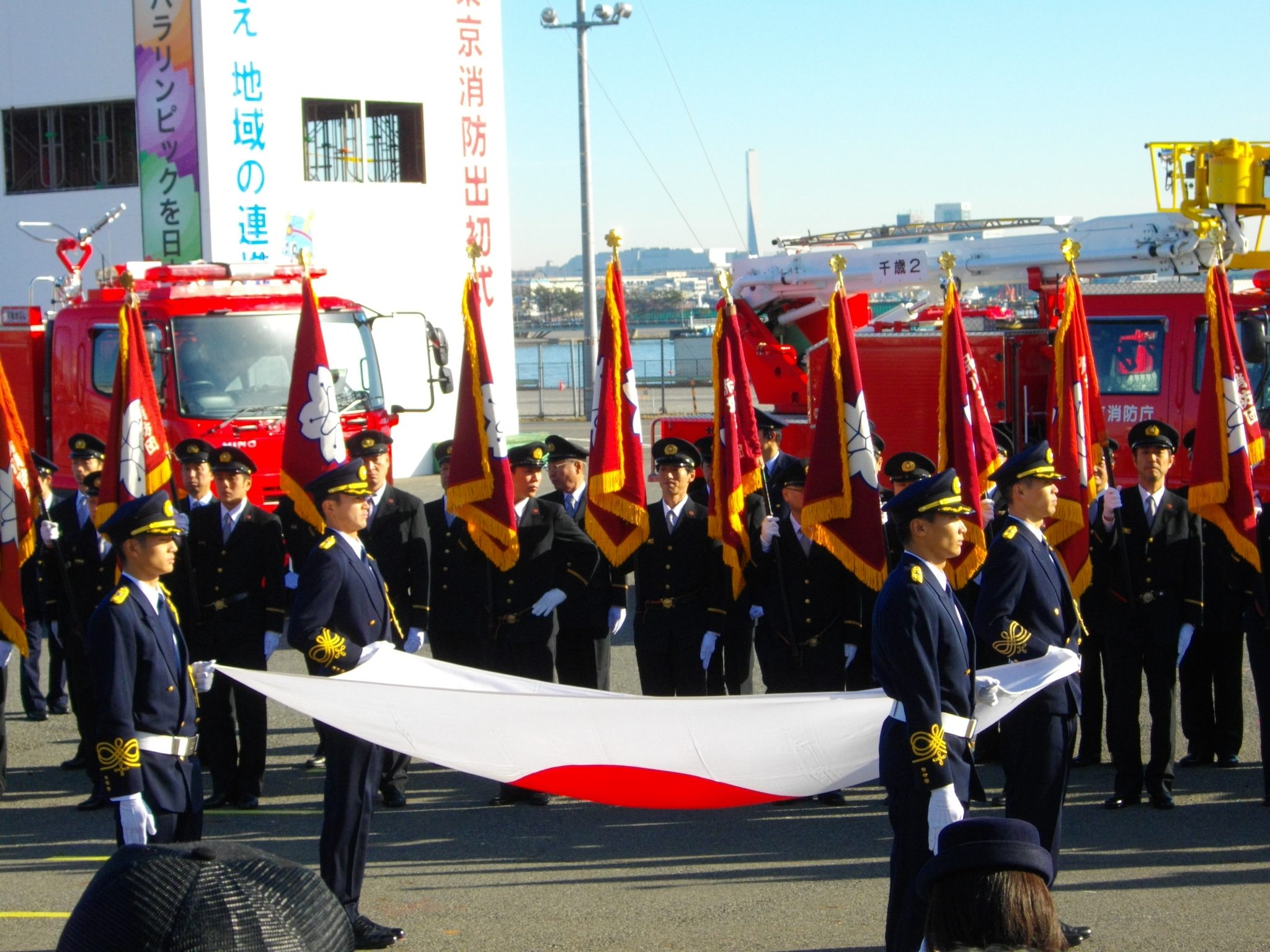 2013 Tokyo Fire Department Dezome Ceremony